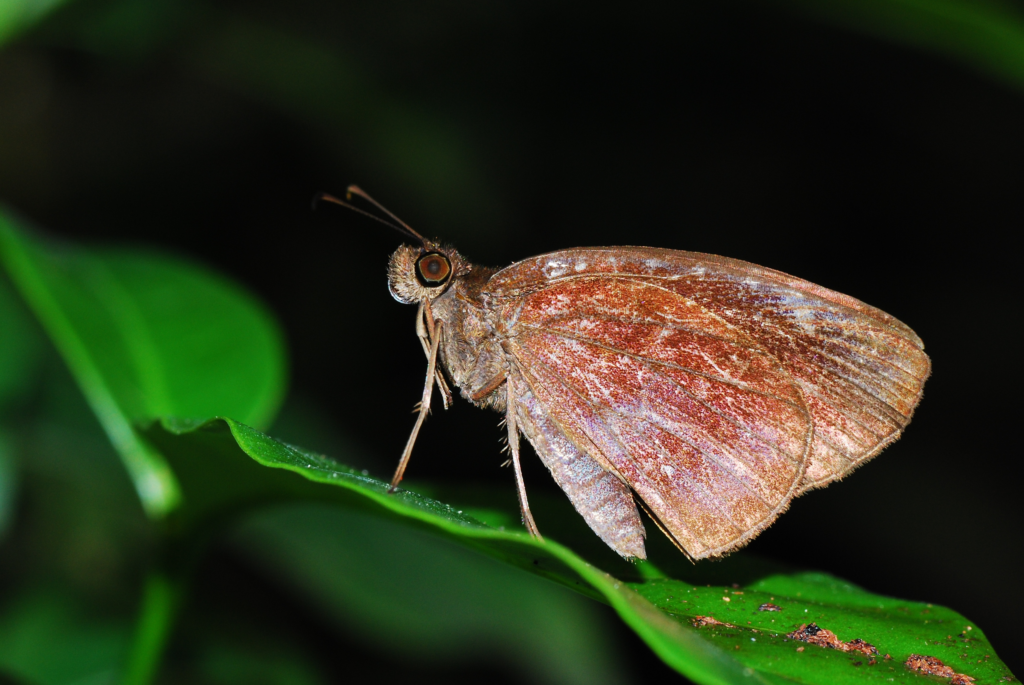 it is a butterfly, common name- giant red eye. Butterfly now identified as "Coon" Psolos fuligo (vide Monsoon Jyoti Gogoi in Facebook group ButterflyIndia.)